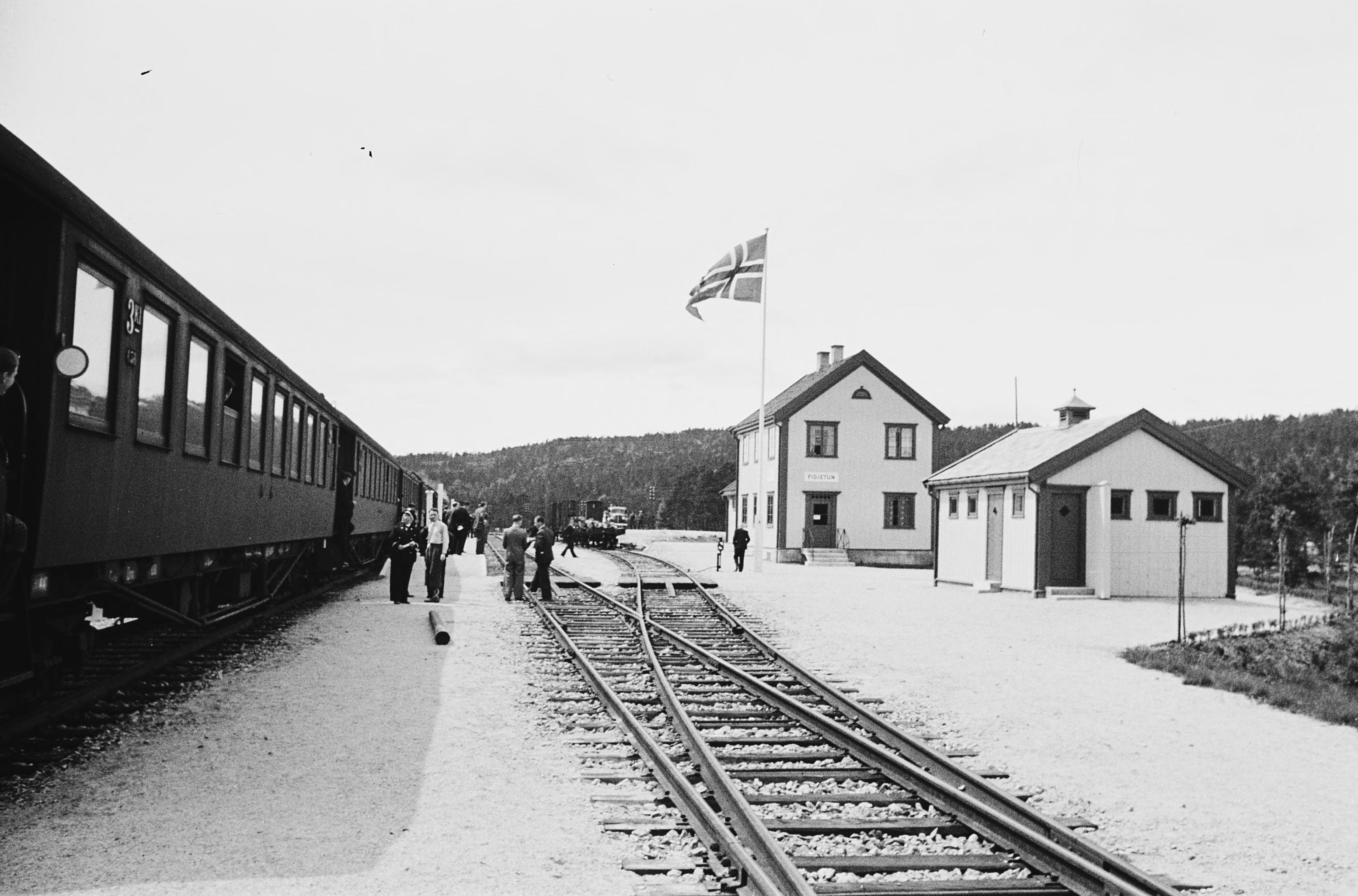 Fidjetun Station in Birkenes, Norway, on the Sørland Line